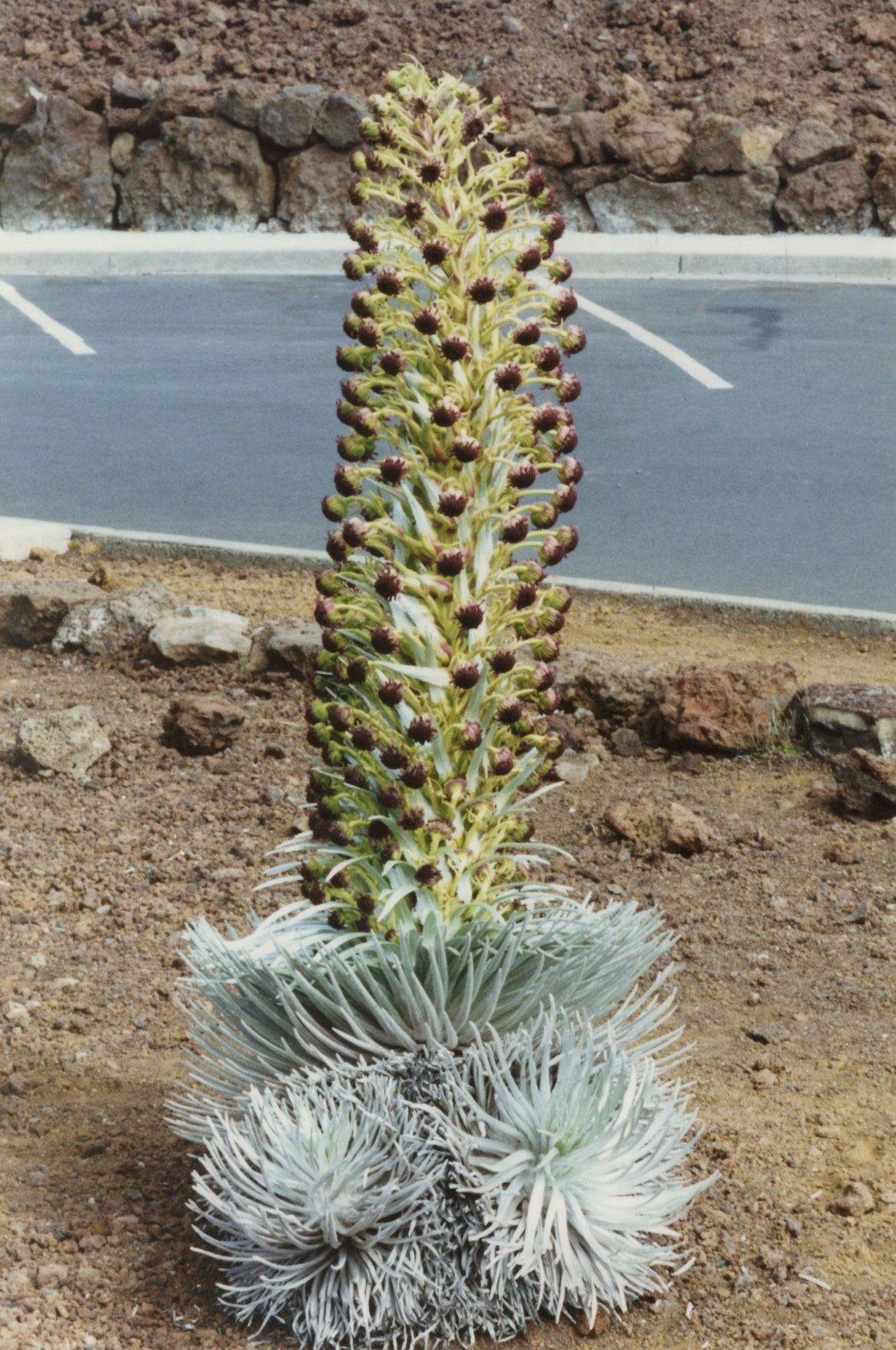 Argyroxiphium sandwicense subsp. macrocephalum, the Haleakalā silversword — at Haleakalā National Park. Endemic plant of the Haleakalā volcano environs of Maui. August 2002. Photo by Karl Magnacca.